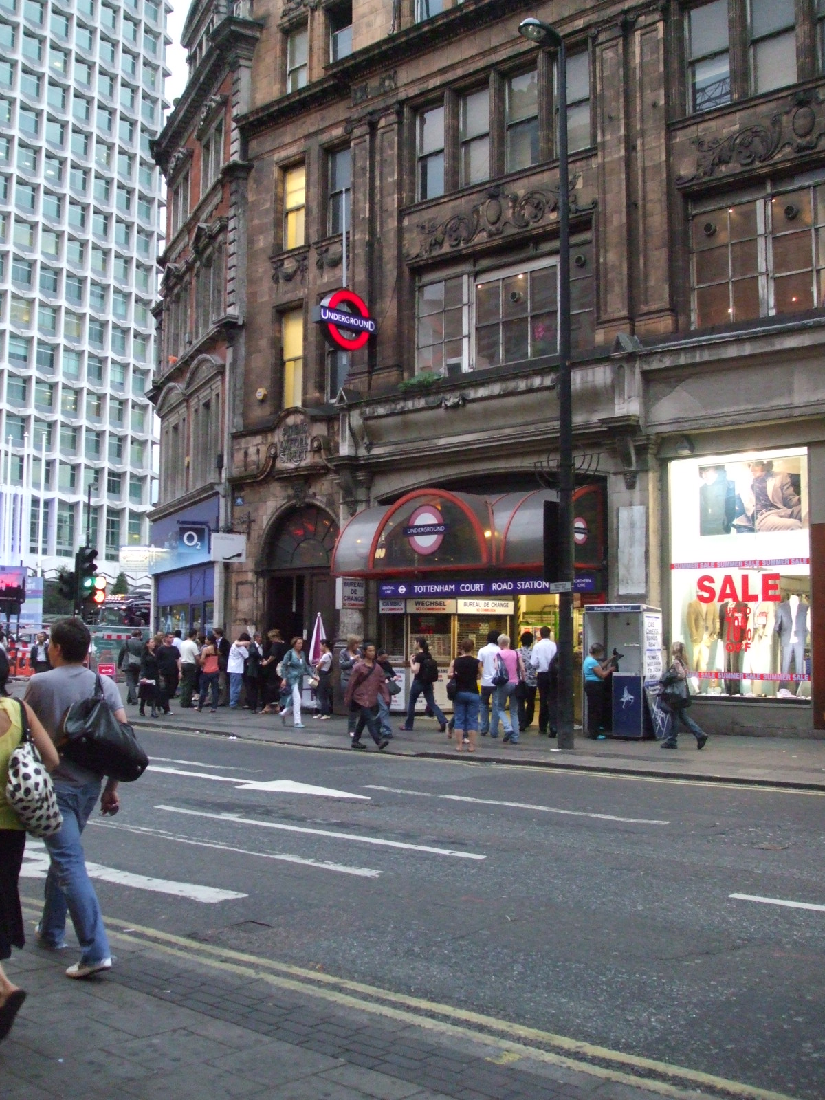 Tottenham Court Road tube station main entrance on the south side of Oxford Street